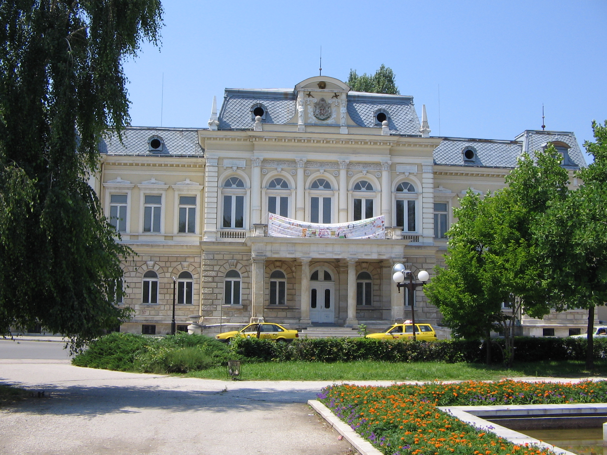 Regional historical museum